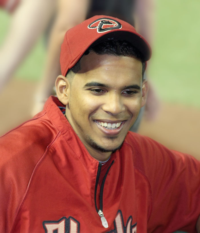 Vasquez, 2011